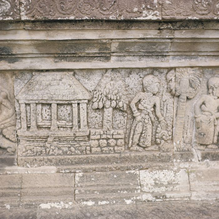 Low reliefs at the Pendopo Terrace, Panataran temple complex